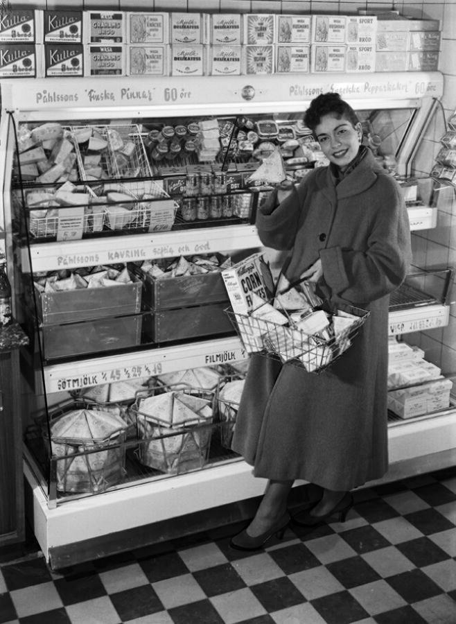 Tetra Pak Housewife with Tetra Classic 1950s